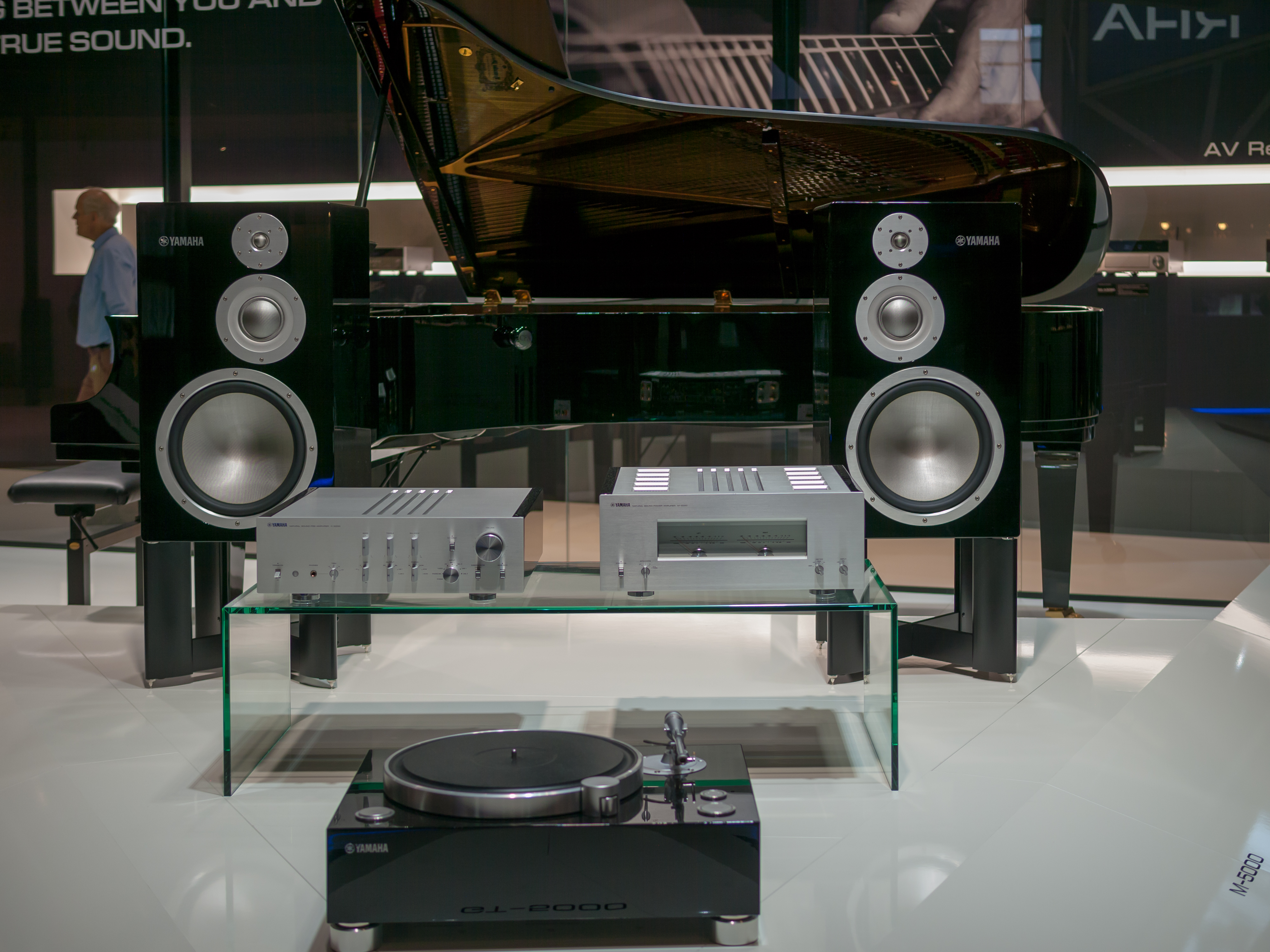 Yamaha, Internationale Funkausstellung 2018, Berlin